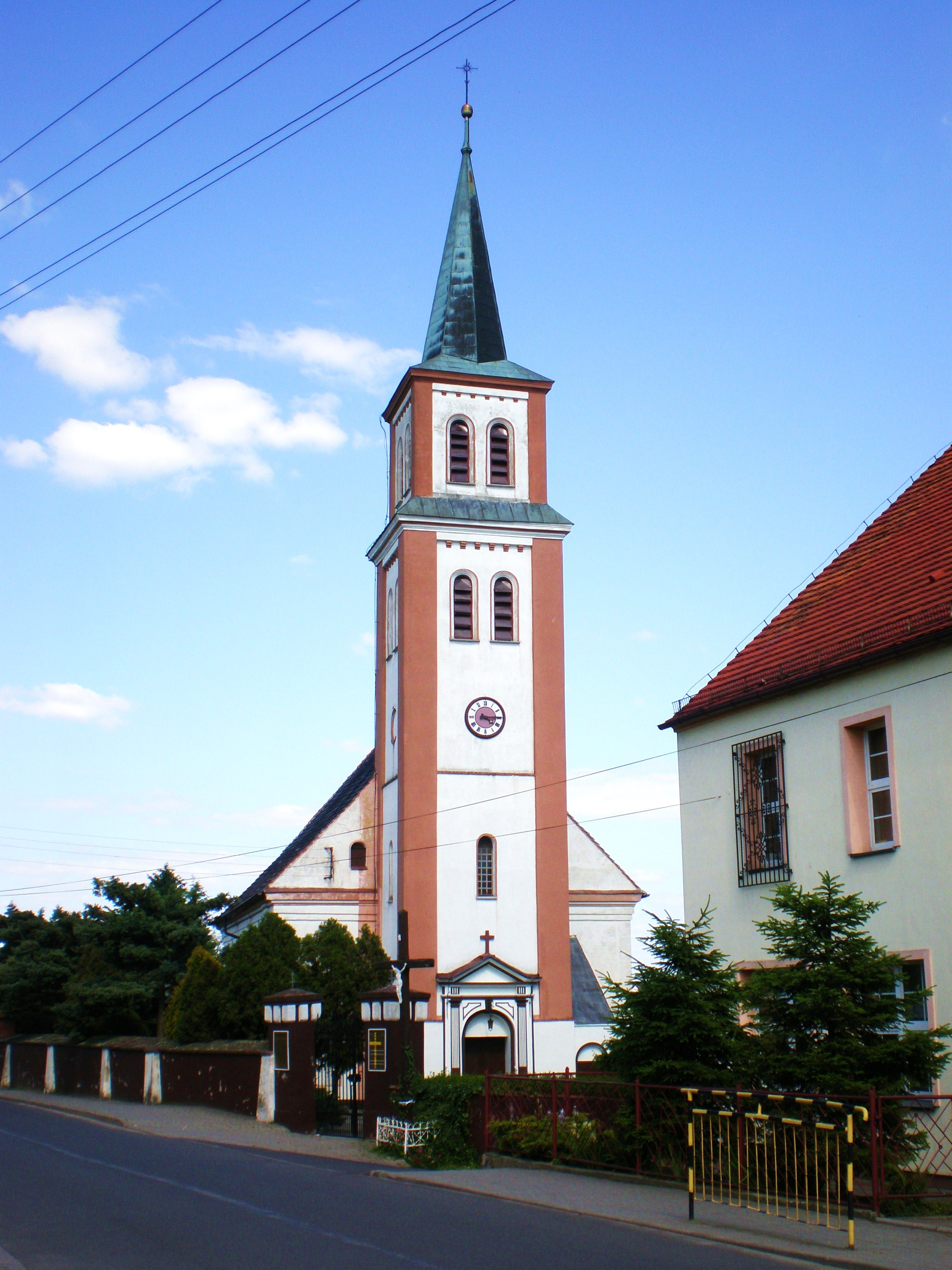 Saint Andrew church in Kamiennik, Poland